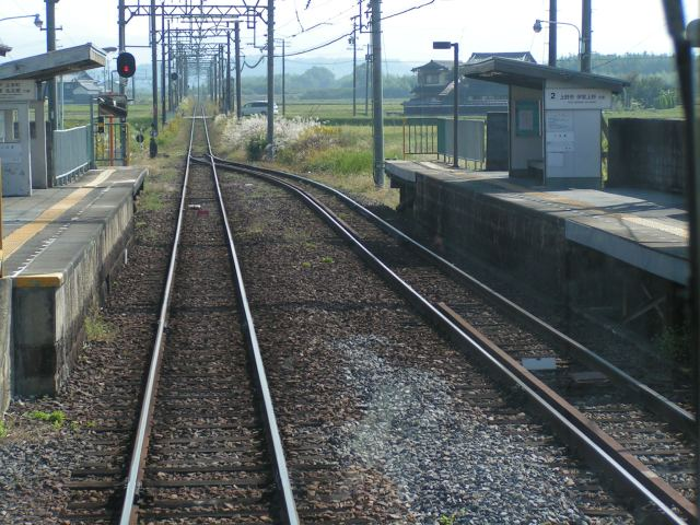 Idamichi Station